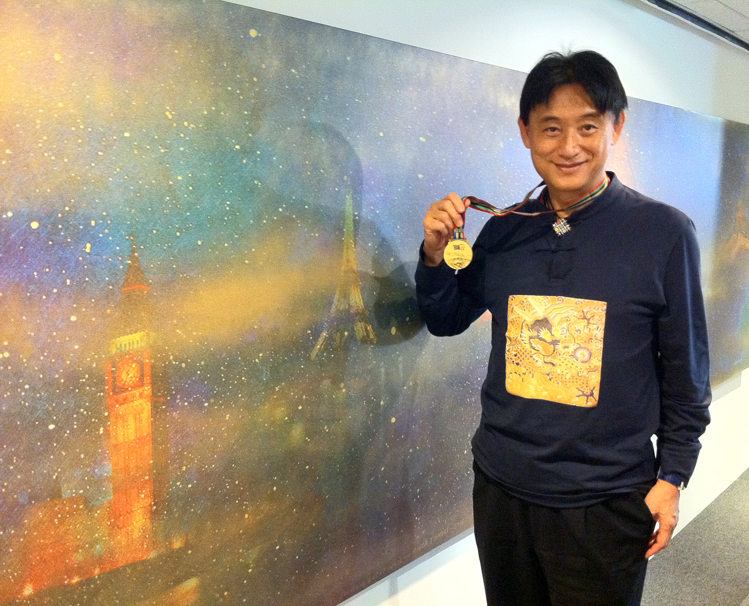 Dominic Lam was awarded a Gold Medal by the International Olympic Fine Art Committee and exhibited at the Barbican Centre during the 2012 London Olympic Games.